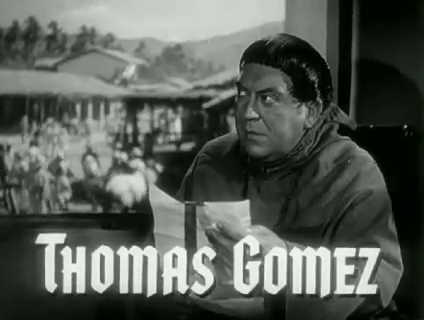 Thomas Gomez Captain from Castile Henry King 1947